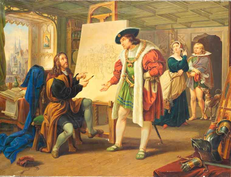 Emperor Maximilian I in Dürer’s Studio in Nuremberg (1841)